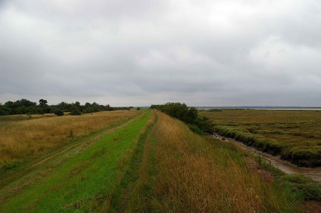 Ghost of The Crab and Winkle Line. The sea wall here follows the exact path of the embankment of the “Crab and Winkle Line” that ran from St Botolphs (Now Colchester Town) Station to Brightlingsea via Wivenhoe. I am told that children before WW2 used to love the ride across the wooden viaduct at Alresford Creek it used to flex and groan under the weight of the train they were all convinced it would collapse causing great excitement. The Railway Tavern brew pub in Brightlingsea celebrate the old railway with their 3.7% ABV Crab and Winkle Mild made without finings. The Crab and Winkle Line missed its centenary by a couple of years by closing in 1964. This section of the line is now a public footpath